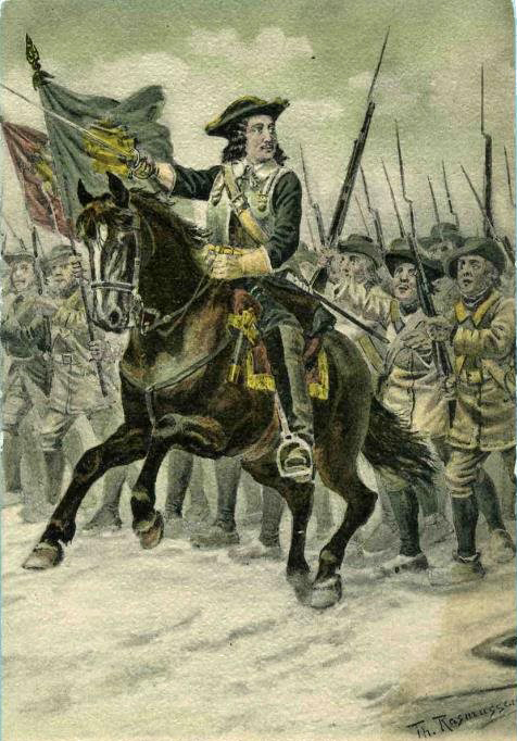 Magnus Stenbock and his soldiers at the battle of Helsingborg 1710. Postcard by Thorvald Rasmussen.